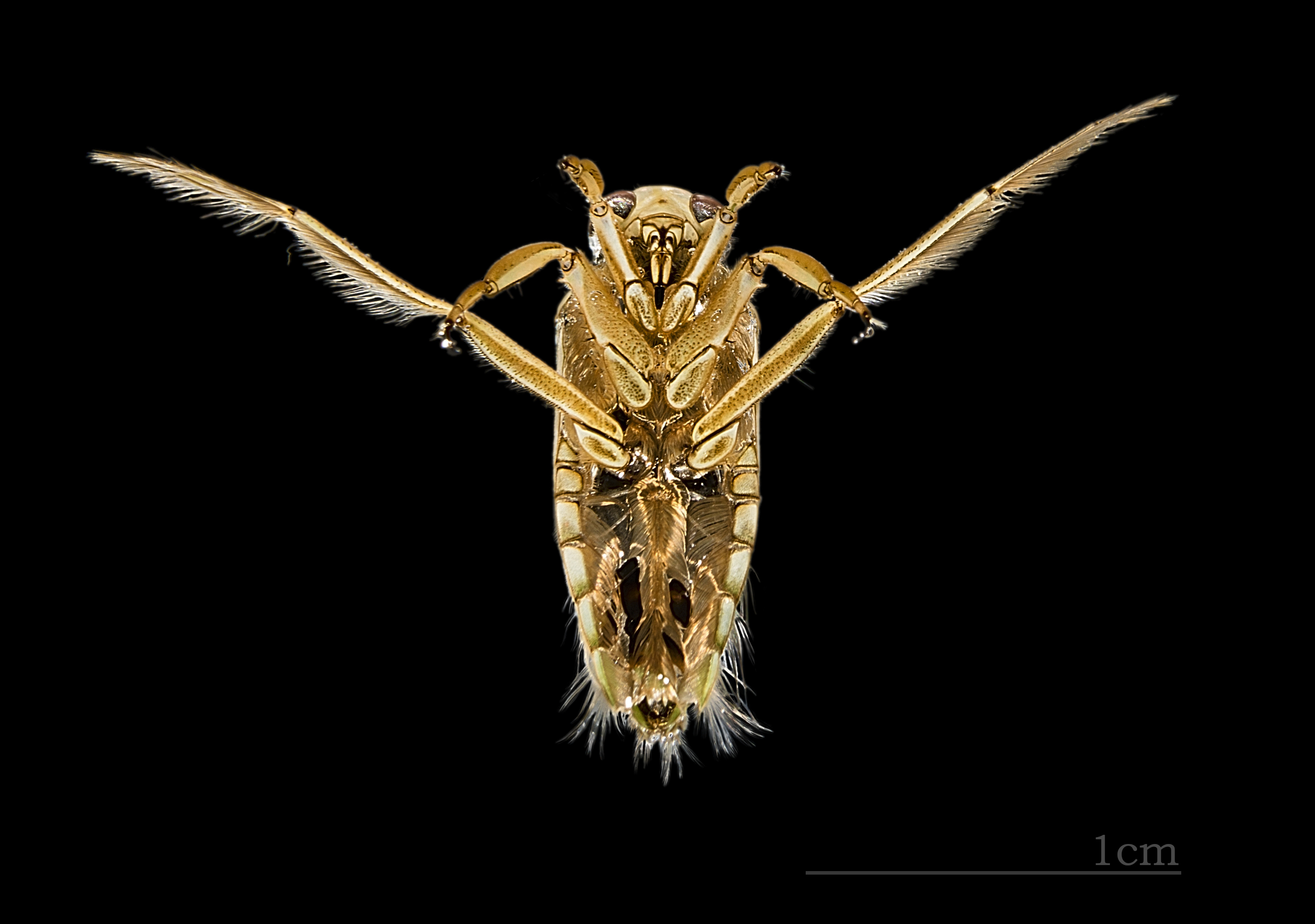 Notonecta maculata beetle, Ventral side swimming position.